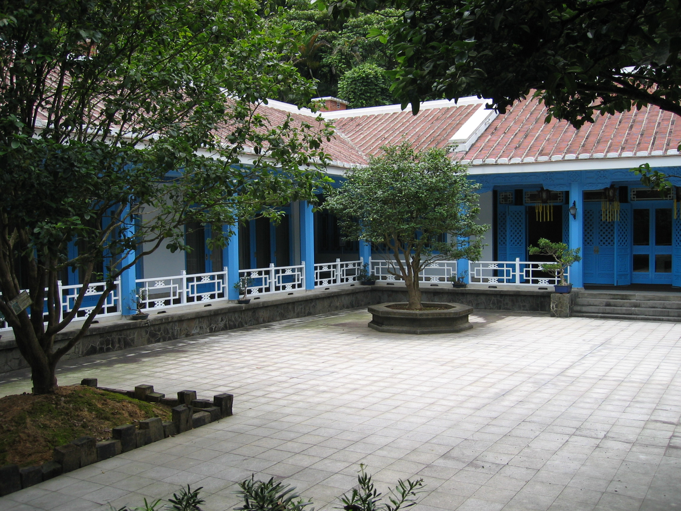 Photo taken on 2005.06.11 by User:Jiang in Cihu, Taoyuan, Taiwan, Republic of China.